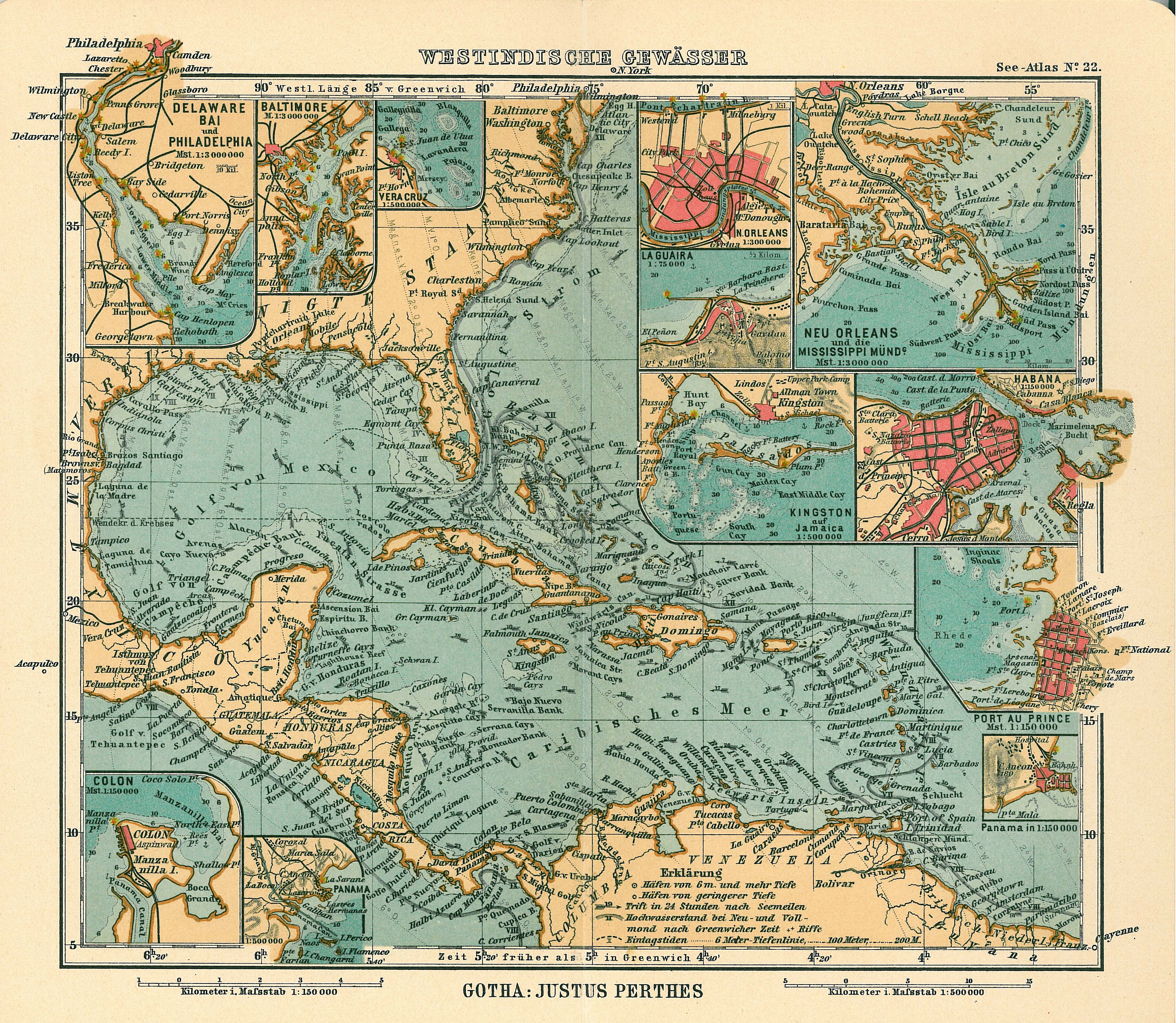 Page 22, West Indies (Mexico Bay, Cuba, etc...), inset maps of Delaware Bay, Baltimore, Veracruz, New Orleans, La Guaira, Kingston, Havana, Port-au-Prince, Panama, Colón